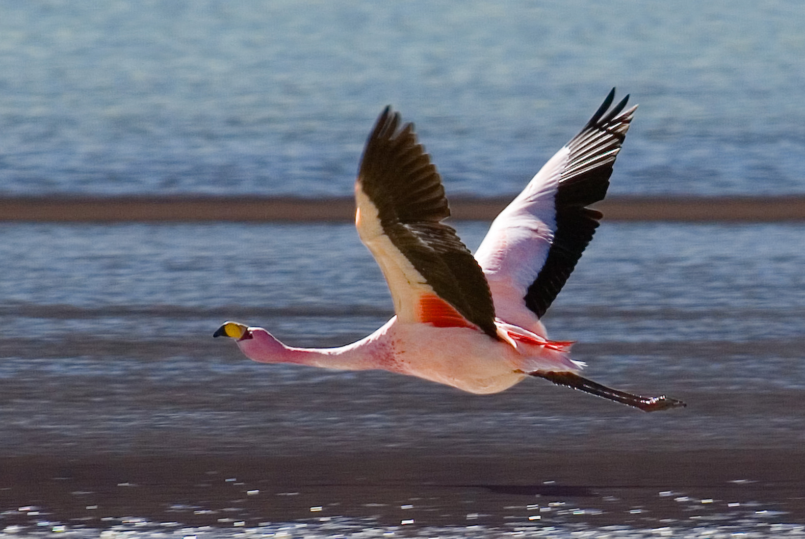 Flying Free Puna Flamingo Phoenicoparrus jamesi in the Laguna Hedionda